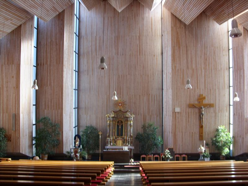 Interior of the roman catholic church in Primstal, Saarland